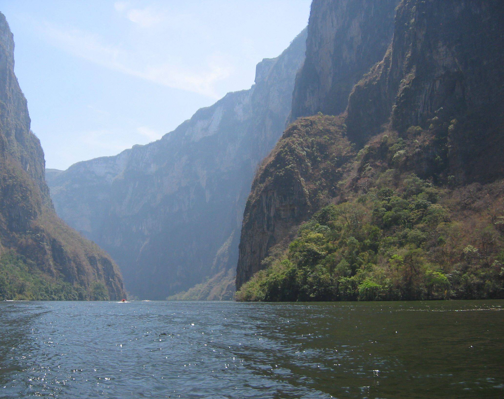 Photo taken by Poppy in March 2005